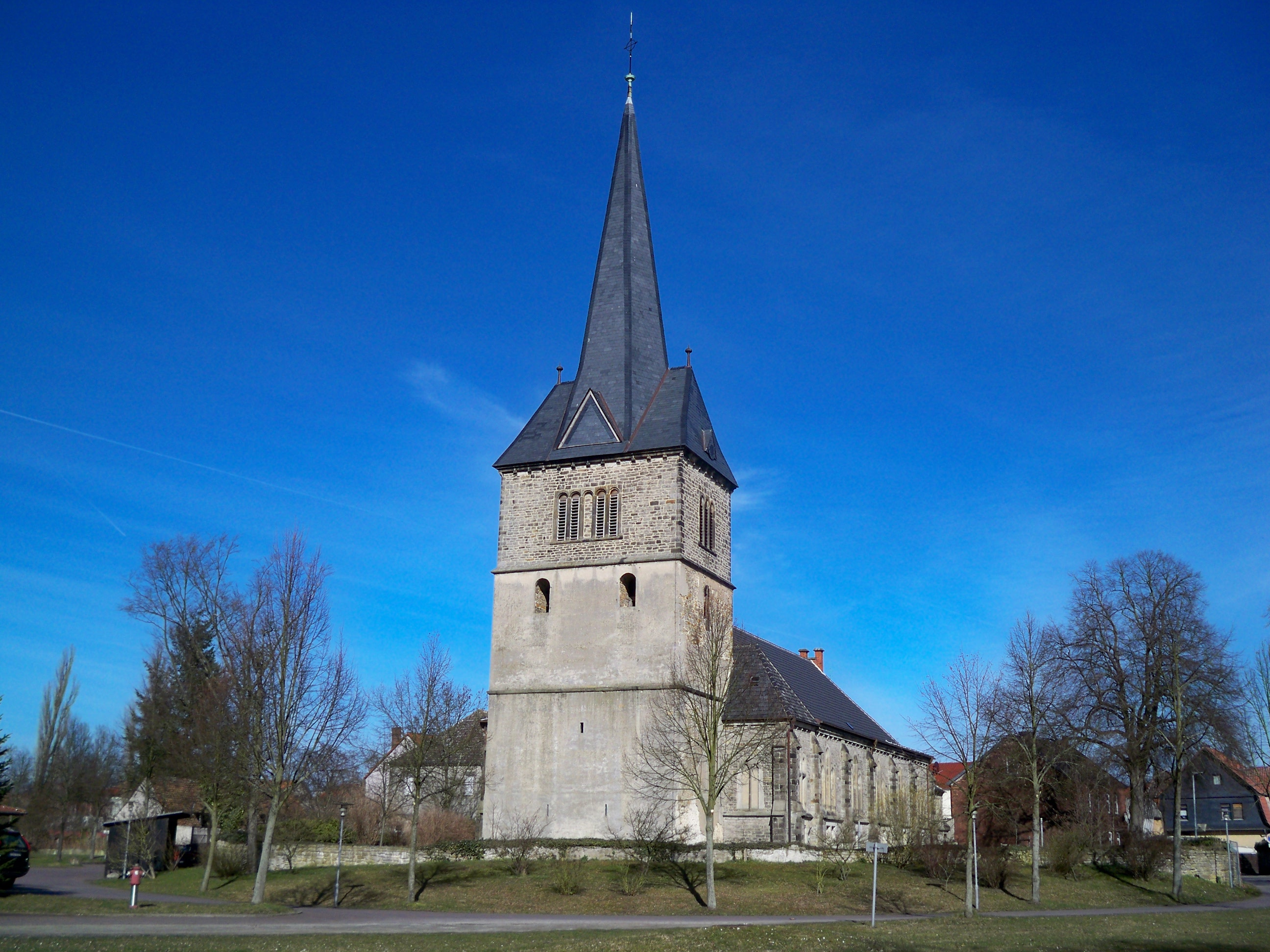 Oebisfelde, Oebisfelde-Weferlingen, Saxony-Anhalt, St. Nicolai church from west